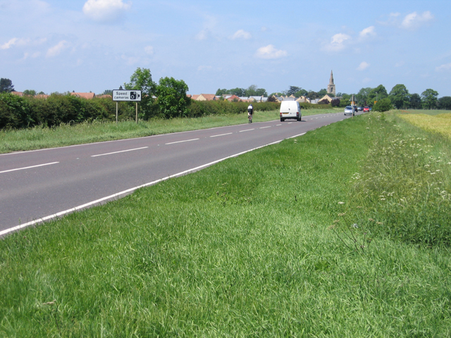 The A15 Peterborough Road, Langtoft, Lincs – view NW towards the village centre from the junction with Meadow Road.